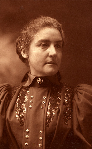 Martha Carey Thomas while the president of Bryn Mawr (betweeen 1894-1922)